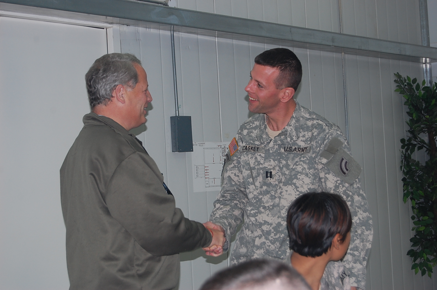 New York Congressman Steve Israel shakes Capt. Brian S. Caskey's hand and thanks him for his service not only in Iraq but also in N.Y. Congressman Israel along with the N.Y. governor and three other congressmen visited Soldiers from 3-142 Assault Helicopter Battalion, a N.Y. Army National Guard unit, assigned to Task Force 449, at a dining facility in Baghdad, Dec. 21.